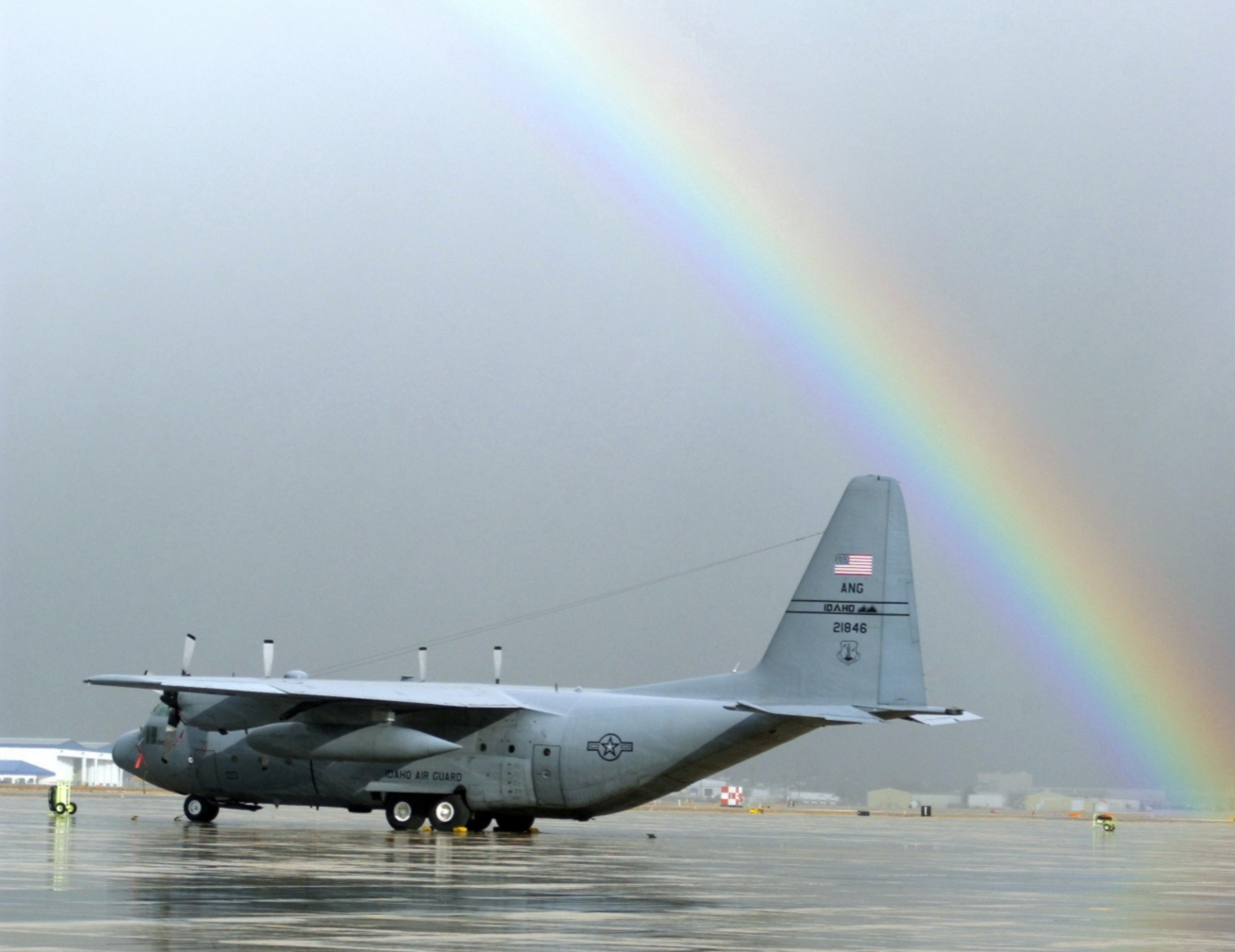 A U.S. Air Force Lockheed C-130E-LM Hercules (s/n 62-1846) from the 189th Airlift Squadron, 124th Wing, Idaho Air National Guard, parked on the flight line at Gowen Field, Boise, Idaho (USA), on 4 March 2004.